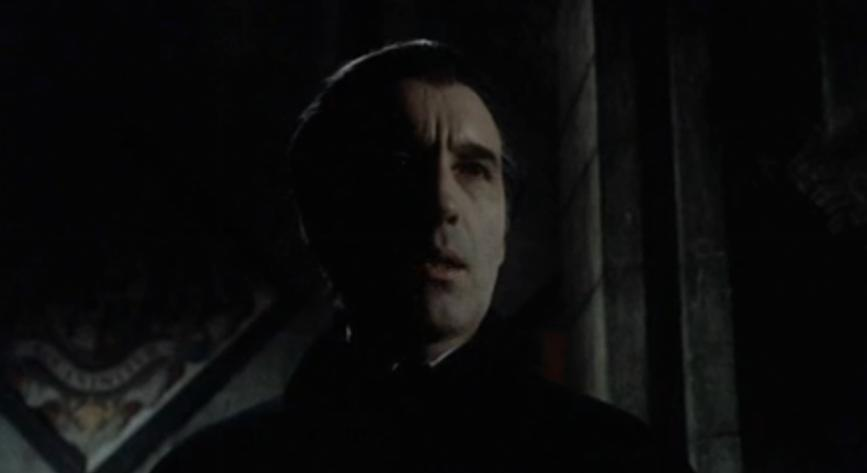 A screenshot from Taste the Blood of Dracula (1970).